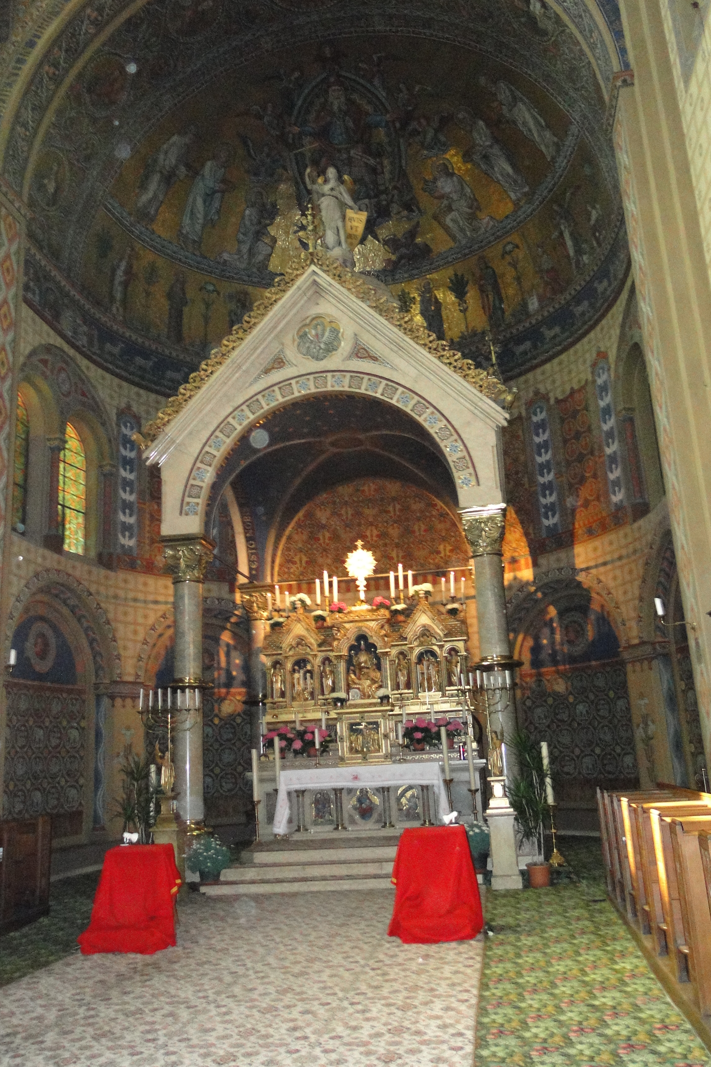 High altar of the Sacro Cuore Church in Bolzano (Italy)